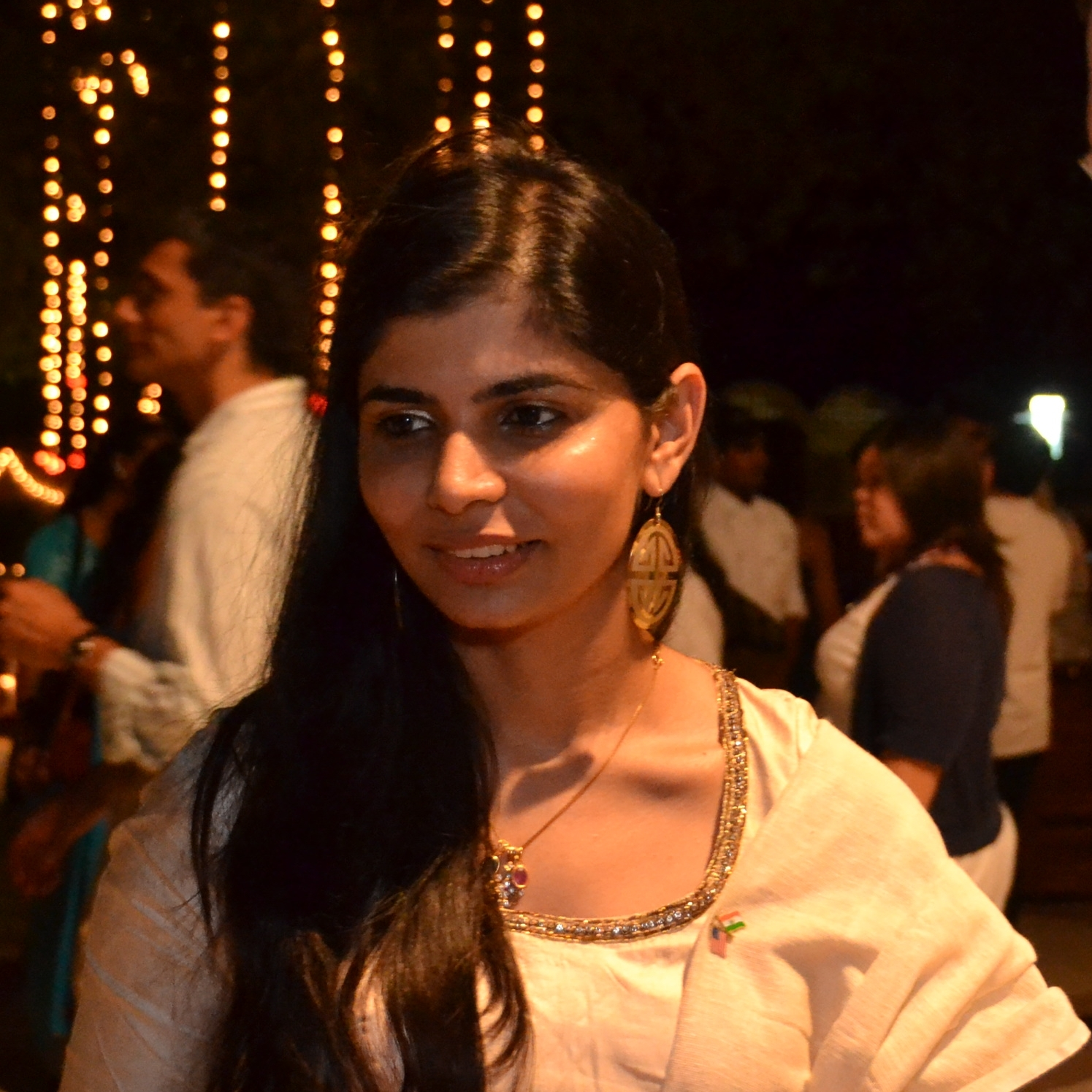 Photograph of Chinmayi Sripada.